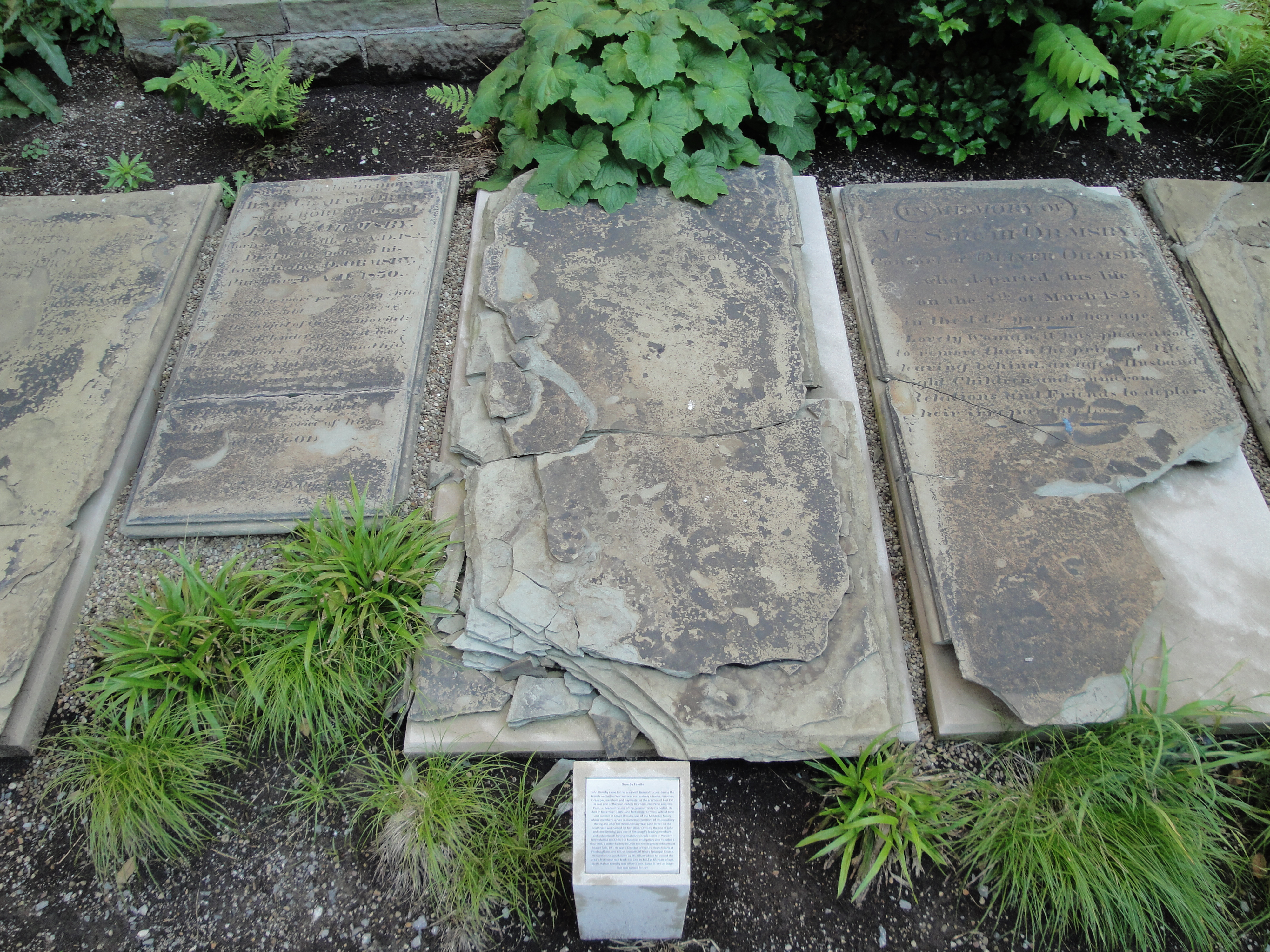 Photo of John Ormsby's burial site at Trinity Churchyard in Pittsburgh, Pennsylvania.